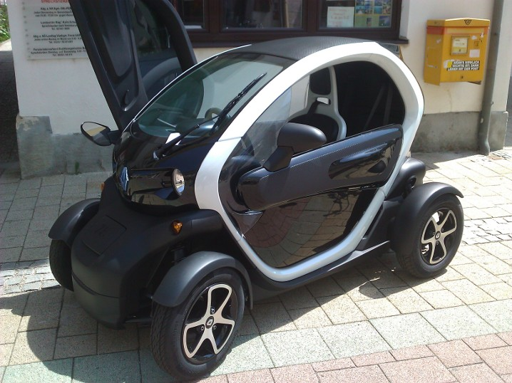 Renault Twizy at the automobile show in Baden, Lower Austria, Austria